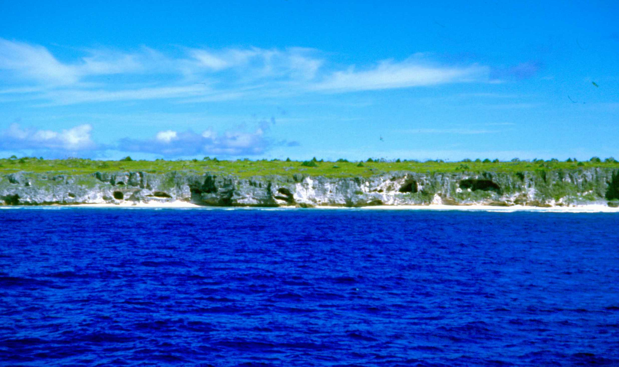 North coast of Henderson Island, Pitcairn Islands, with formerly inhabitet caves